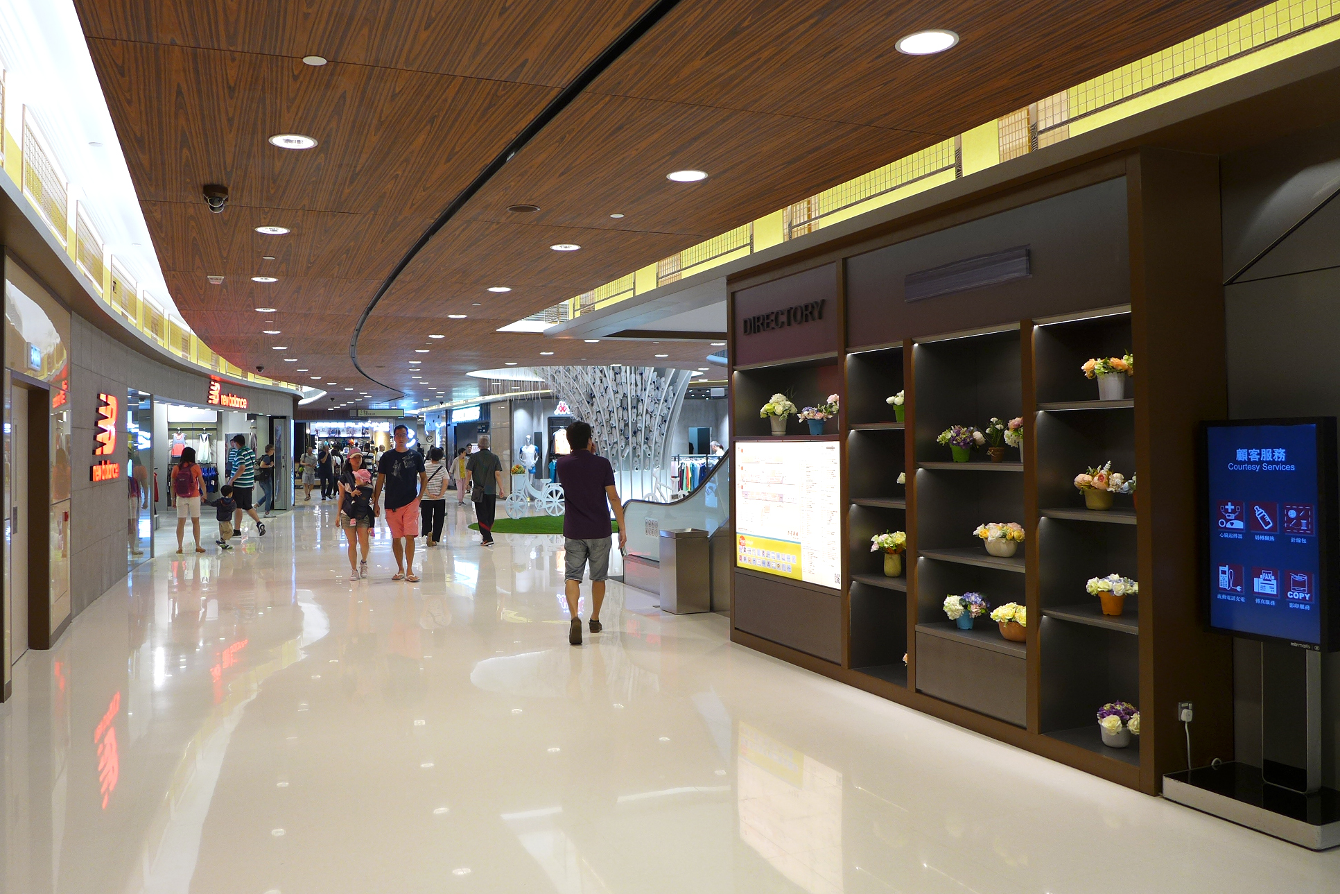 Paradise Mall East Wing Level 1